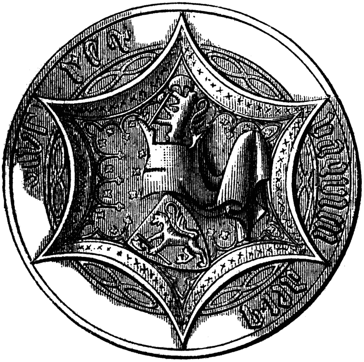 King Håkan Magnusson's of Sweden and Norway seal